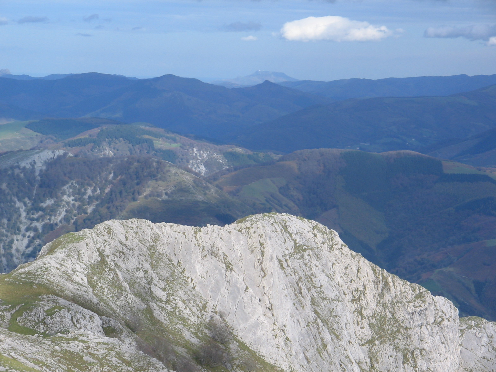 Balerdi mountain sideways, Larrun in the far background